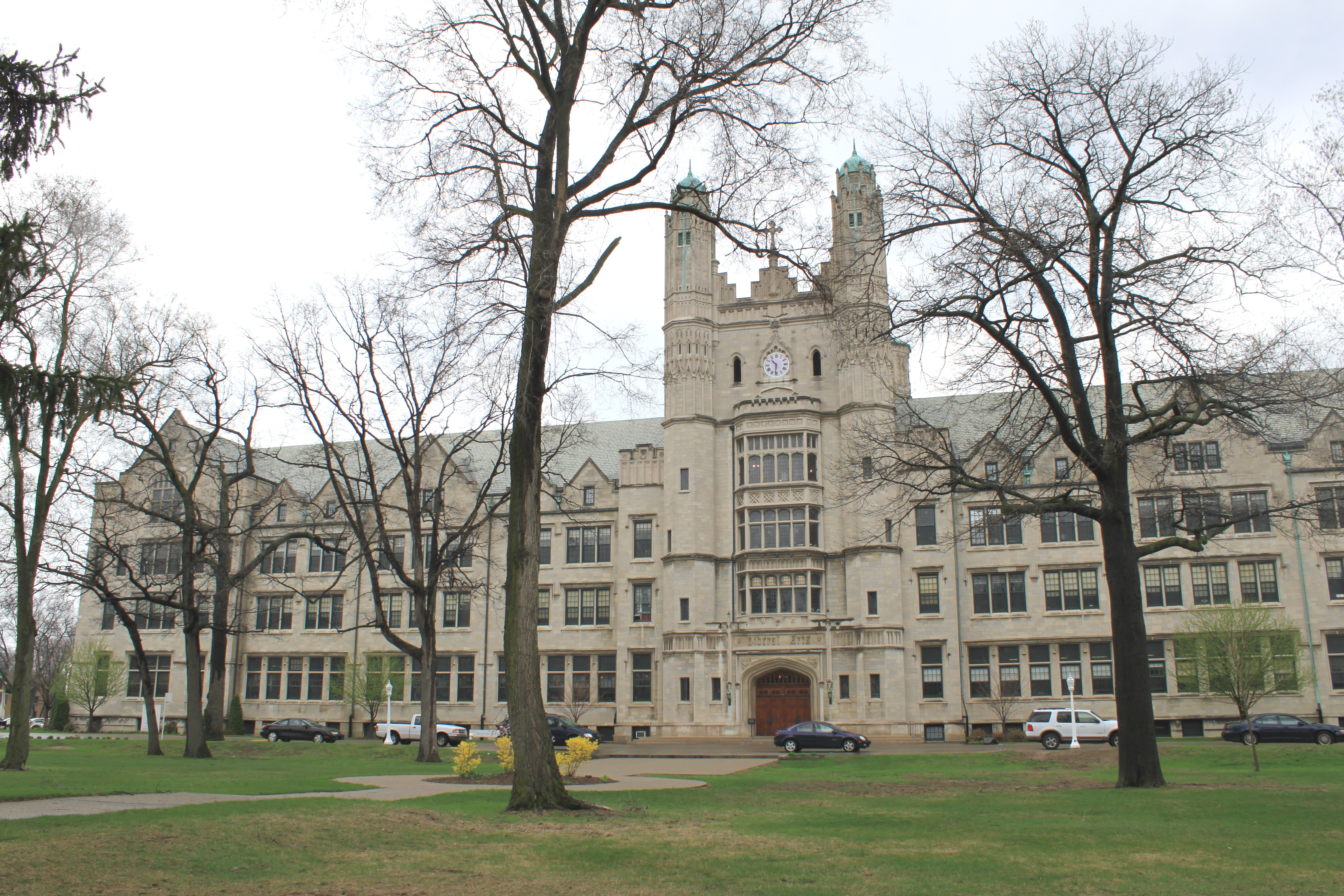 Marygrove College Liberal Arts Building, 8425 West McNichols Road, Detroit, Michigan